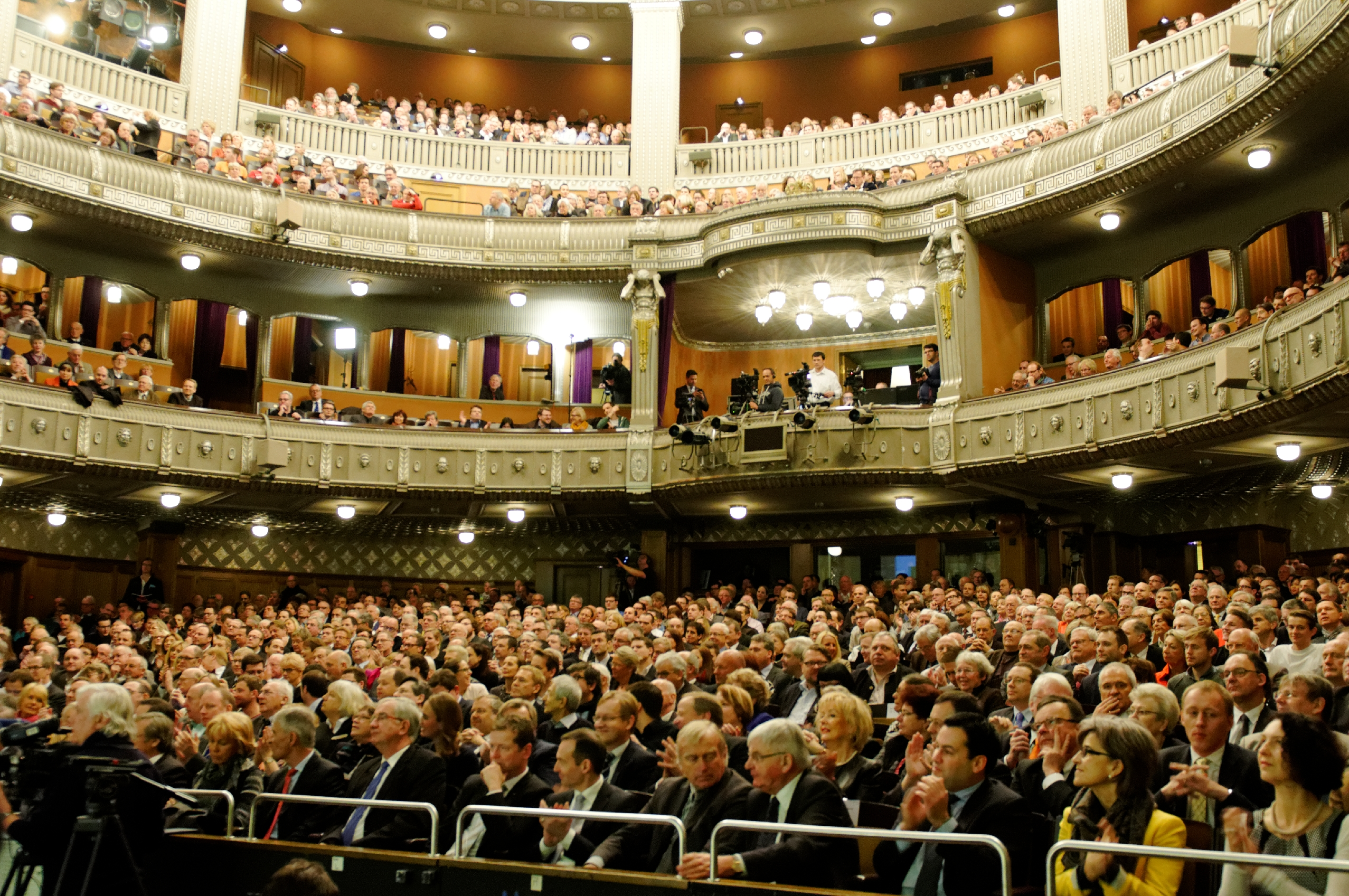 Series: Liberals' Epiphany rally hosted by the FDP Baden-Württemberg in the opera house of Stuttgart on January 6, 2015